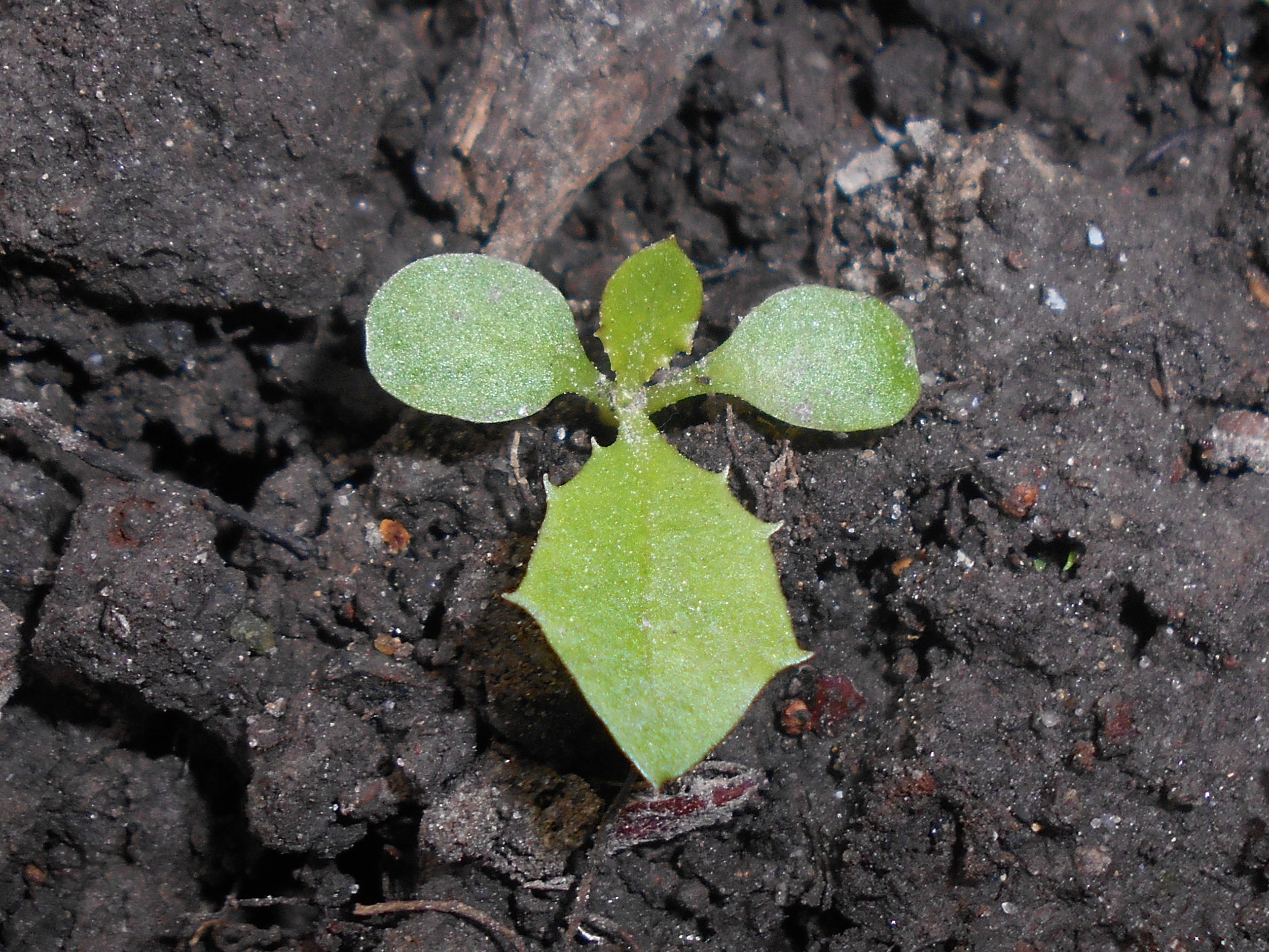 Taraxacum officinale seedling, allotment garden in Lublin, Poland.